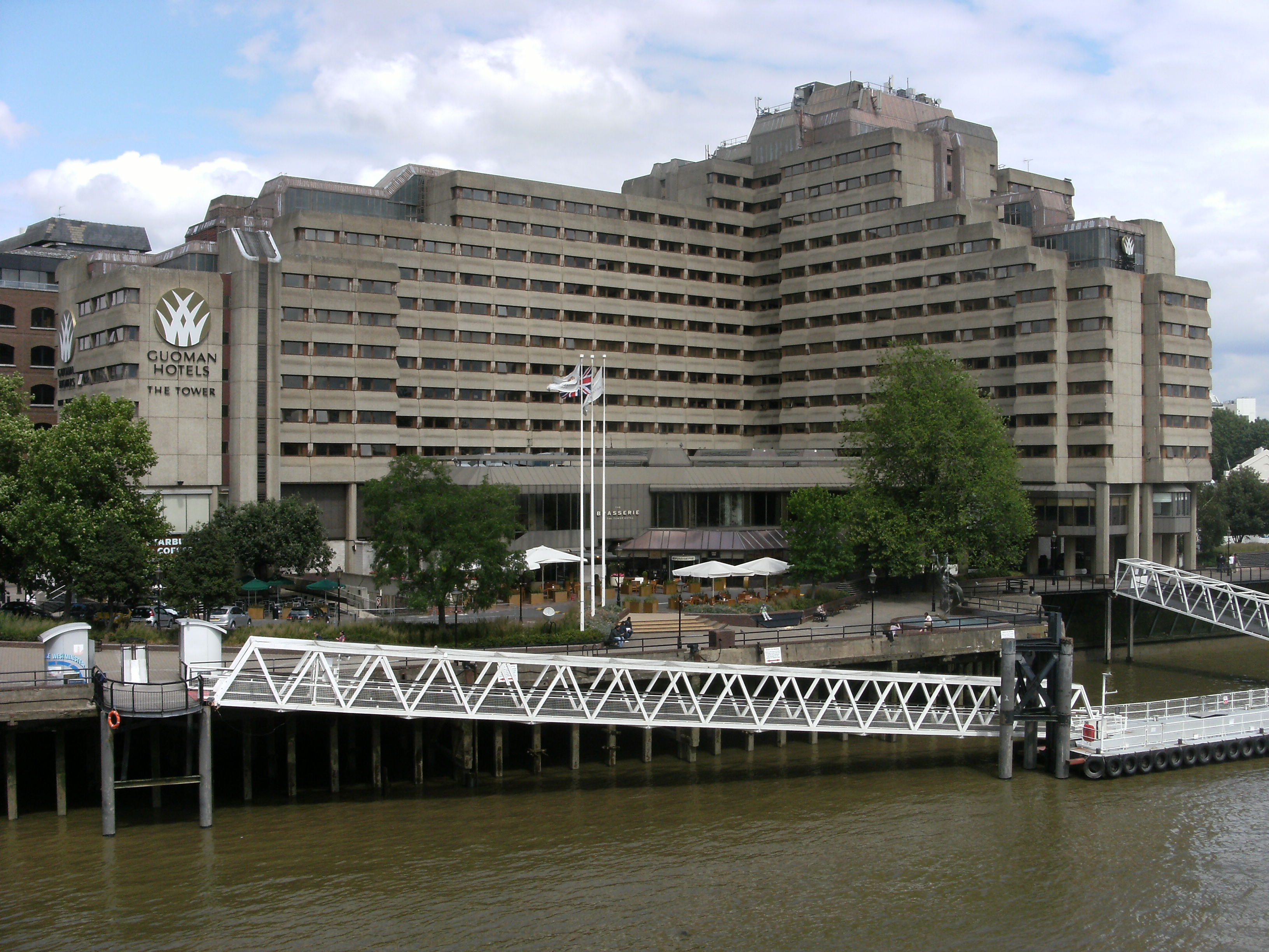 The Tower Hotel, London and St. Katharine Pier 2011-05-31 in London.